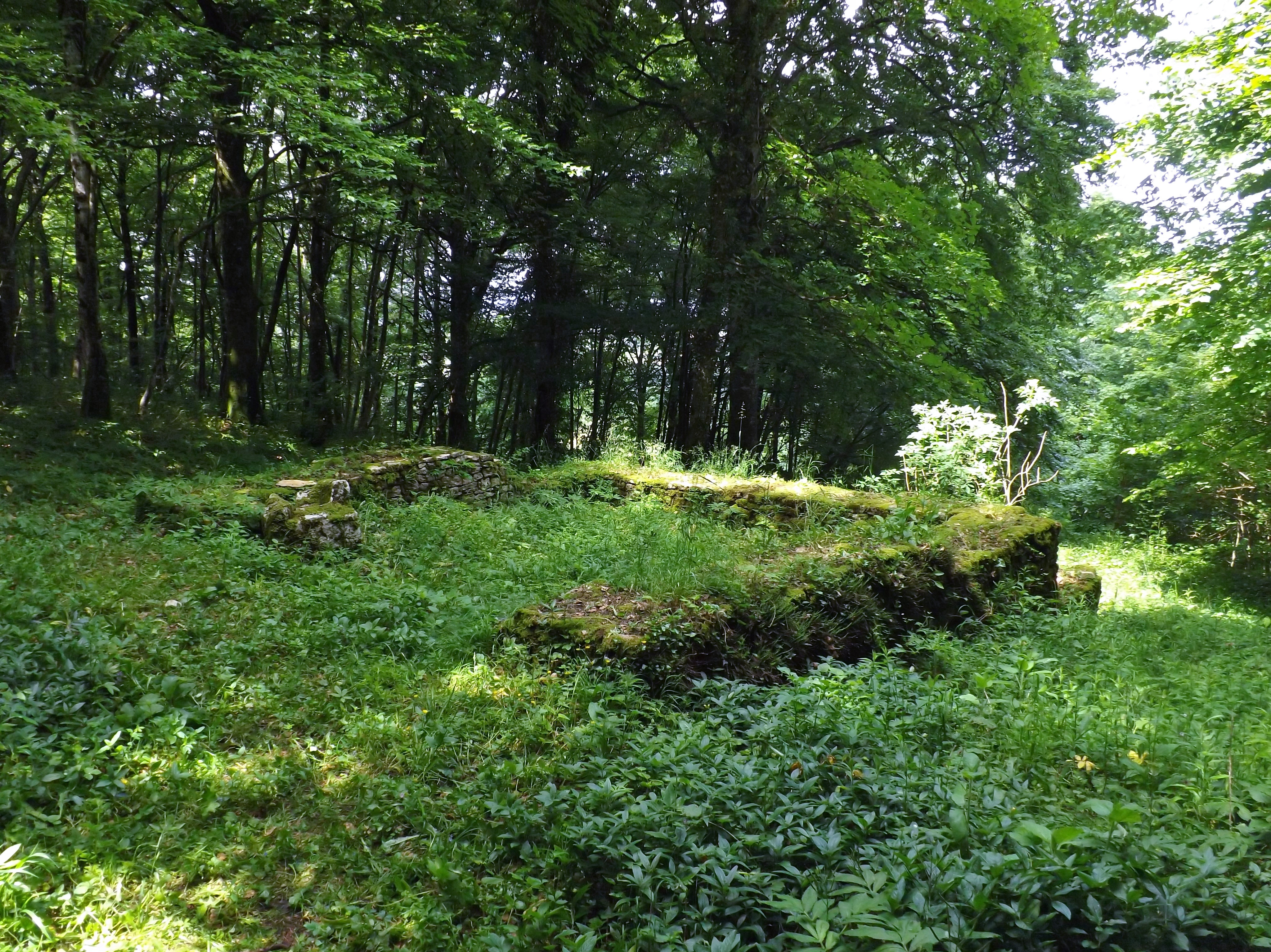 Ruins of the gallo-roman fanum of Pupillin near Arbois in Jura, France.